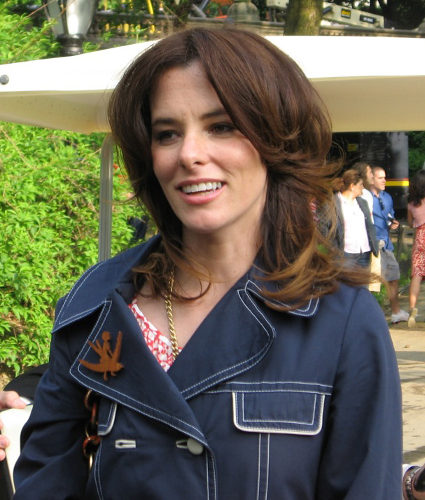 Parker Posey at Fox Upfronts 2007.